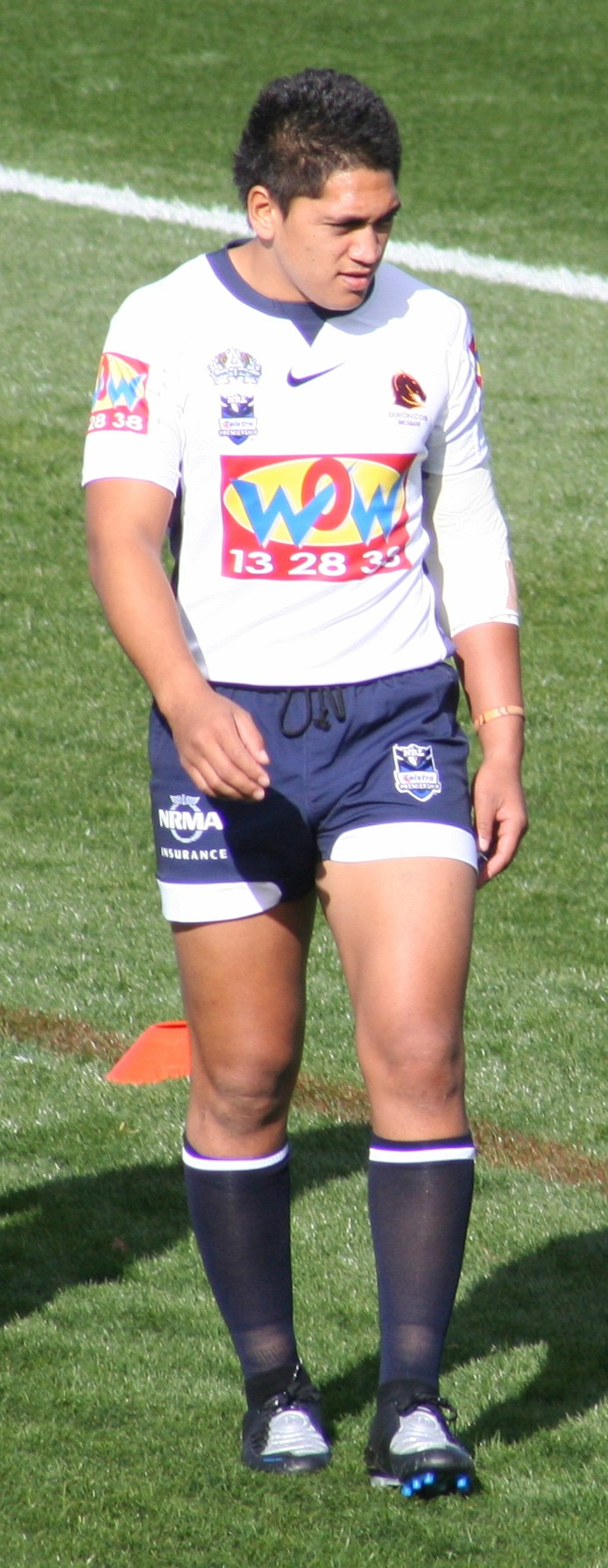 Brisbane Broncos Vs Canberra Raiders 15 June 2008 at Bruce Stadium Canberra. Darius Boyd with Kaine Manihera and Karmichael Hunt.